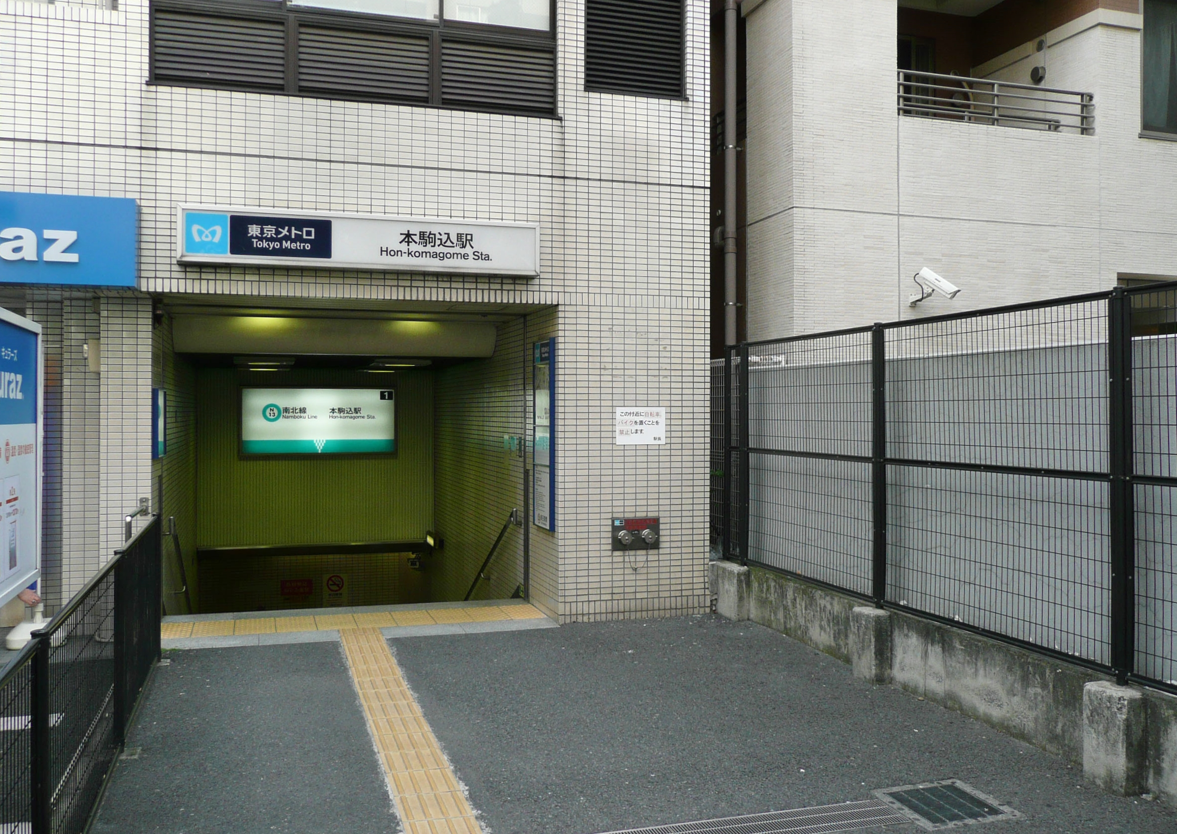 Hon-Komagome Station No. 1 entrance